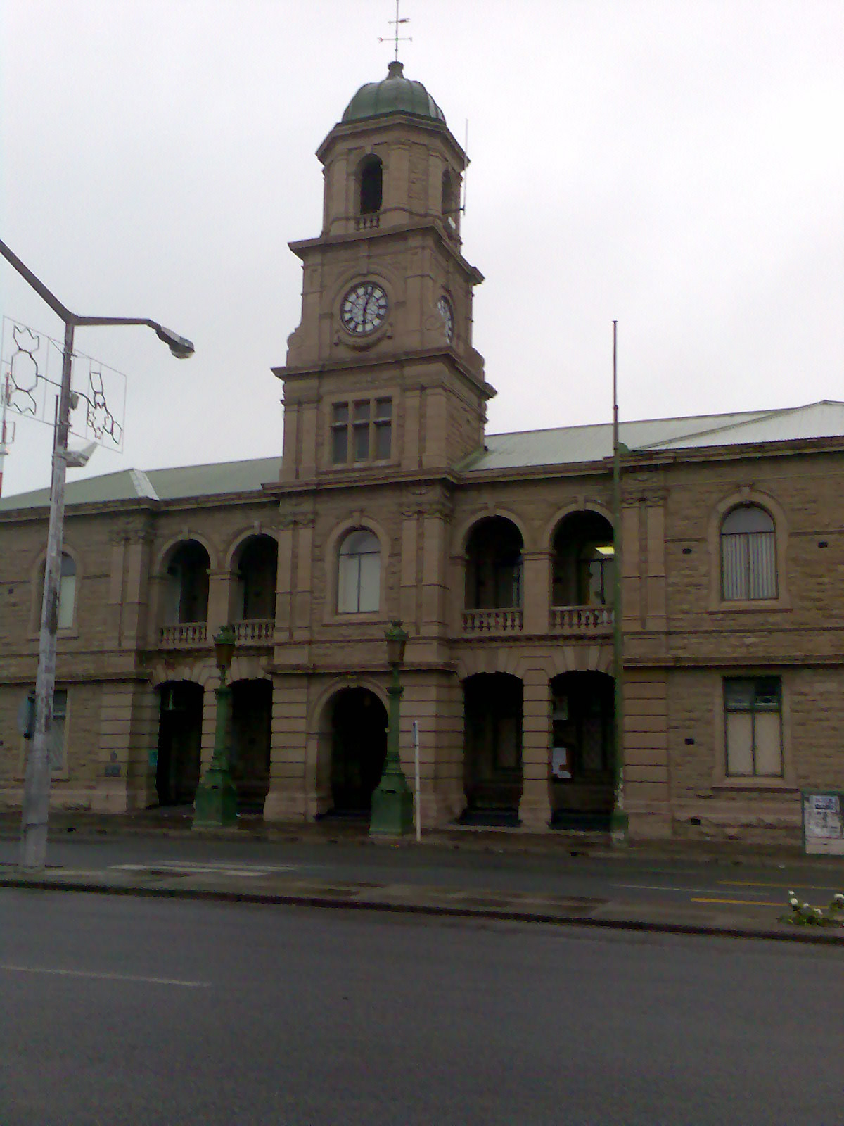 Author: Gregorydavid 19:34, 29 December 2006 (UTC)